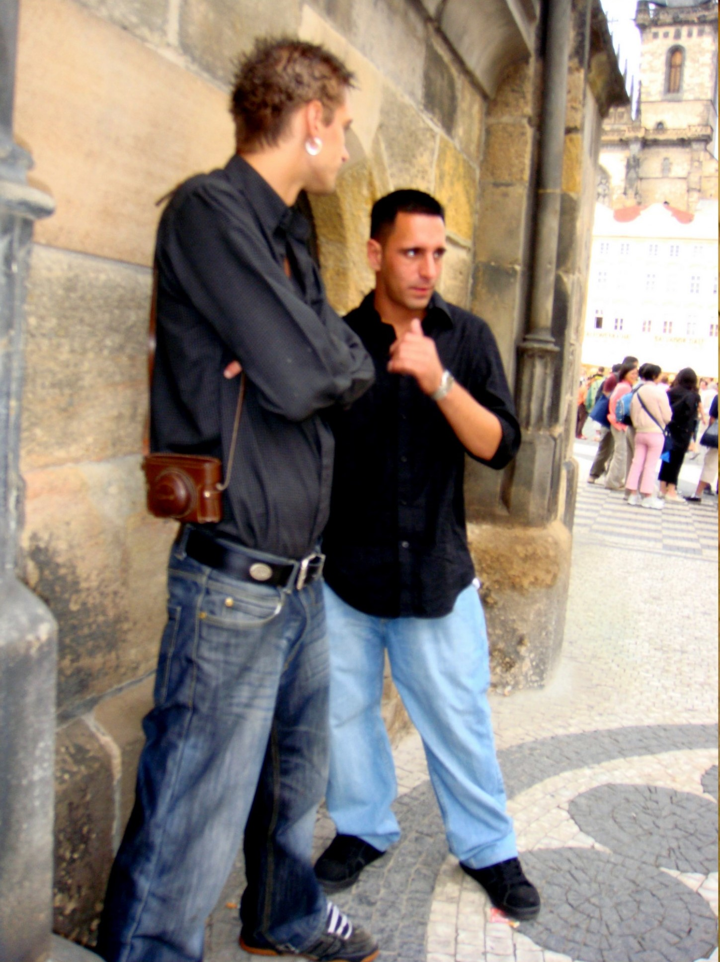 Modern day street hustlers at work on the streets of Prague in the Czech Republic.